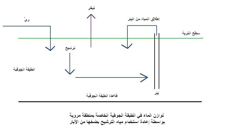 example of Water Balance